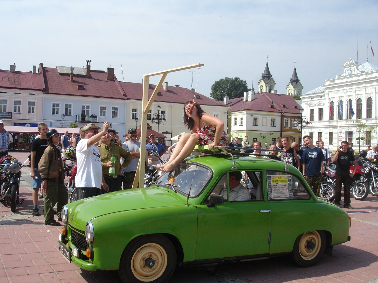 Sanok - main market - mobil happening, 2008